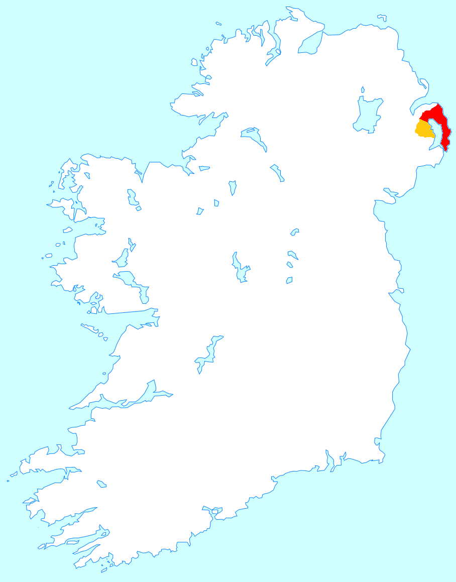 Location map of Ards Peninsula (red) within the Ards local government district (orange) in Ireland